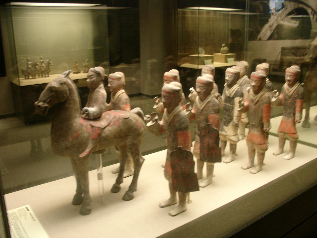 Painted ceramic statues of one Chinese cavalryman and ten infantrymen with armor, shields, and missing weapons, from the Western Han Dynasty (202 BC - 9 AD), now located at the Hainan Provincial Museum.